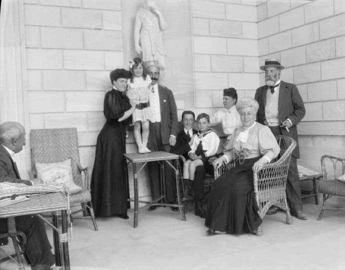 La famille Goüin sur le perron de leur palais abbatial de Royaumont. De gauche à droite : M. Cintrat, Suzanne Goüin, née du Buit (1876-1963), sa fille Magdeleine (1901-1949, future comtesse de Ganay), Édouard Goüin (1876-1922), Ernest II Goüin (1881-1967) avec son neveu Henry Goüin (1900-1977) sur les genoux, Mme Cintrat (?), Mme Marie-Thérèse Goüin (1856-1909, née Singer) et Jules Goüin (1846-1908).